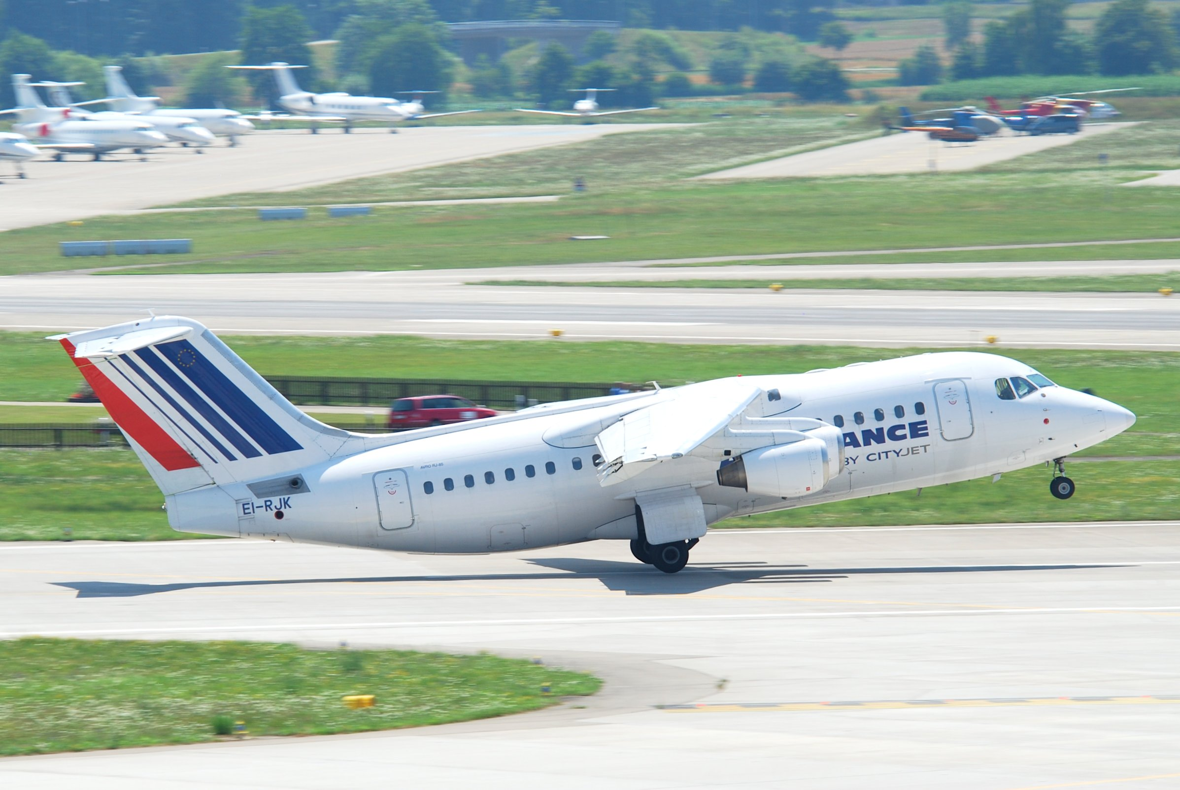 City Jet Avro RJ85; EI-RJK@ZRH;16.07.2010/583dg